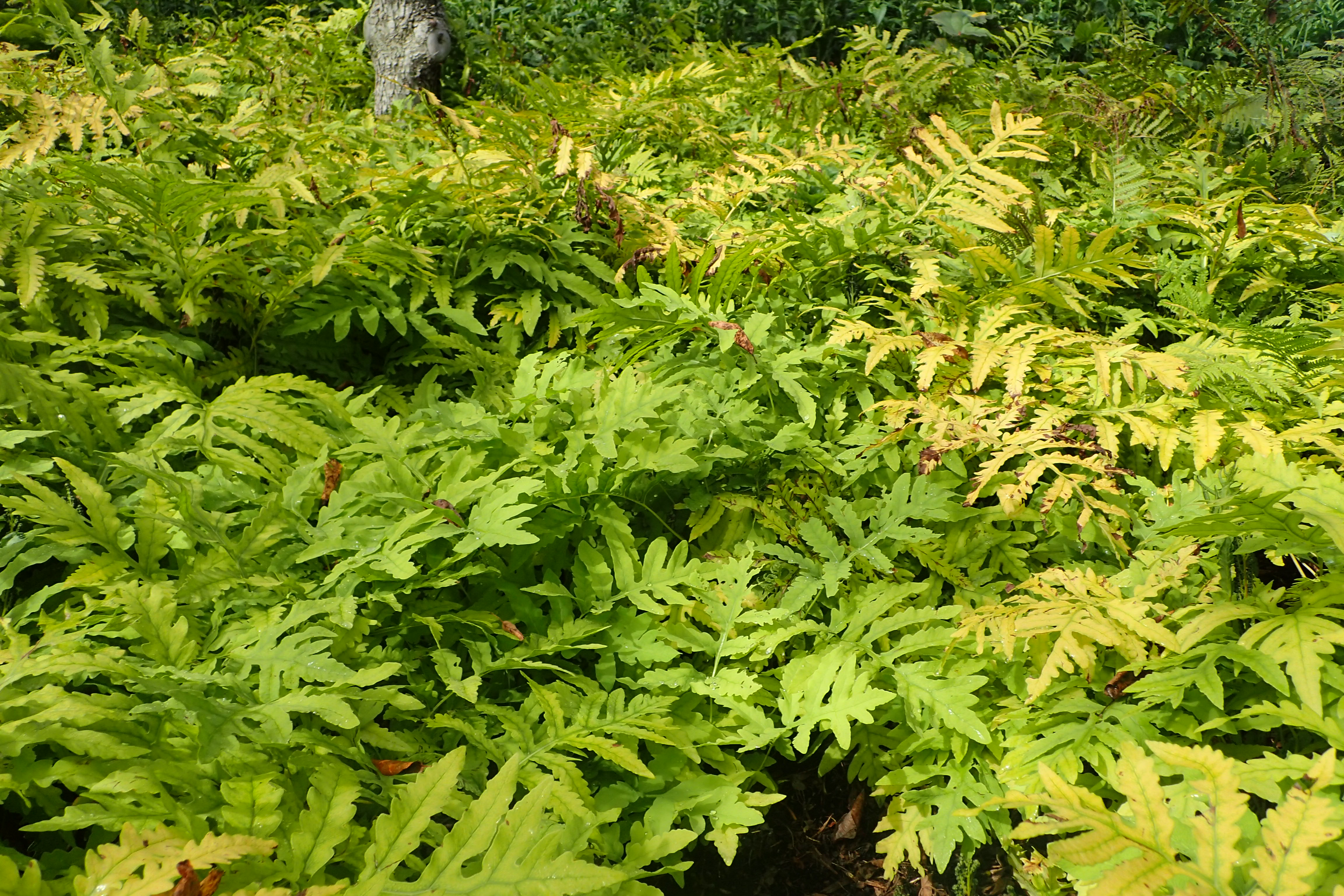 Onoclea sensibilis at Chicago Botanic Garden